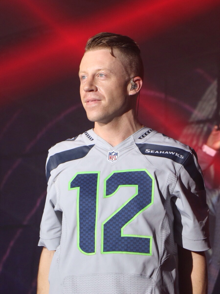 Macklemore at the Super Bowl XLVIII